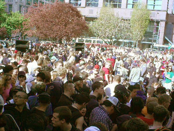 A large scale anti-prohibition demonstration in Vancouver, Canada, on 20 April 2005.